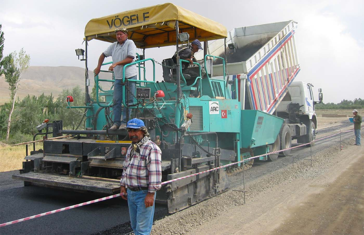 An asphalt laying machine fed by a dumpster lays the first layer of asphalt on the Kabul-Kandahar road. The United States has provided about $190 million, through USAID, to reconstruct a 300-mile segment of Highway 1.